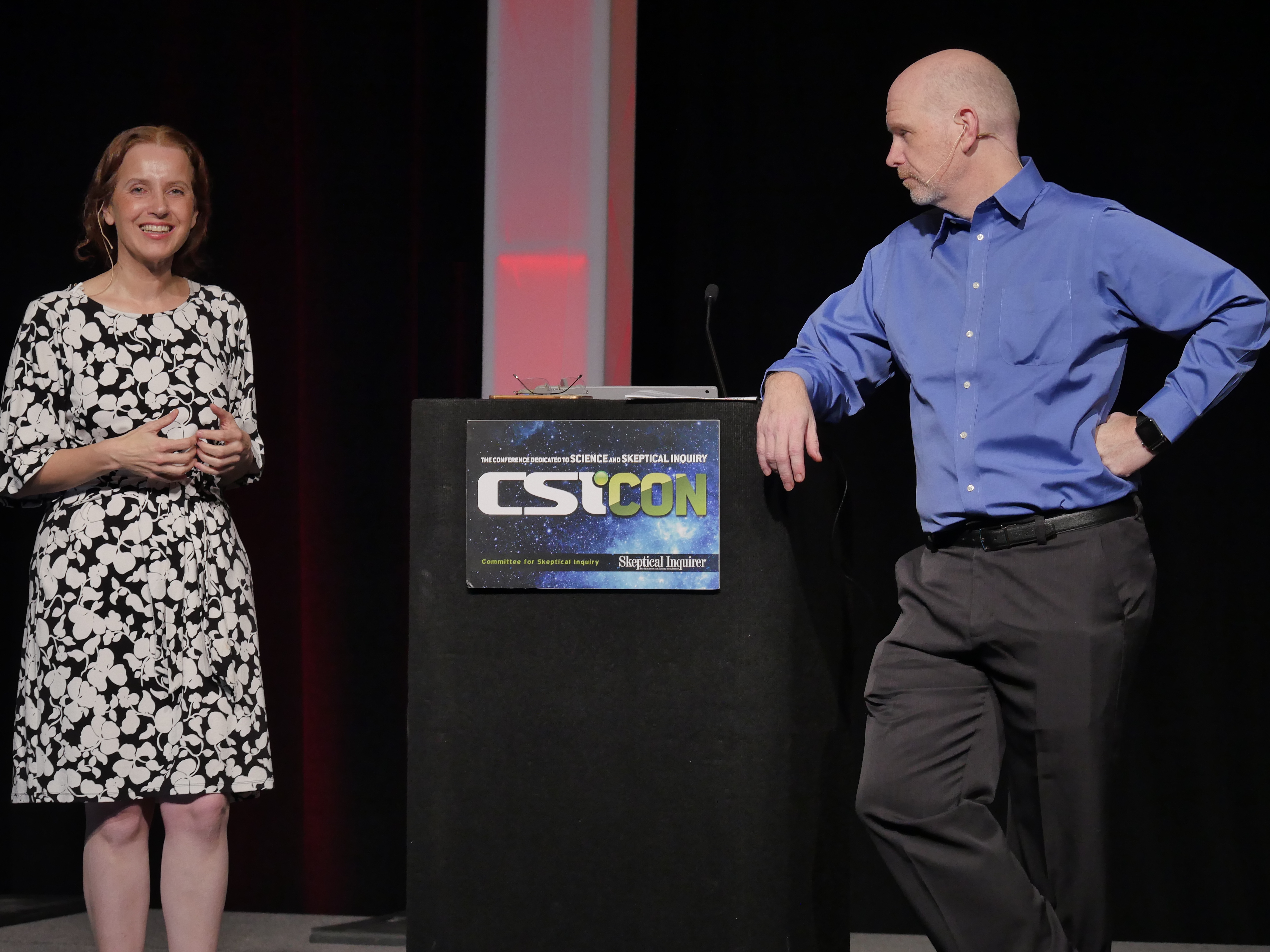 Susan Martinez-Conde & Stephen Macknik CSICon 2018 Champions of Illusion